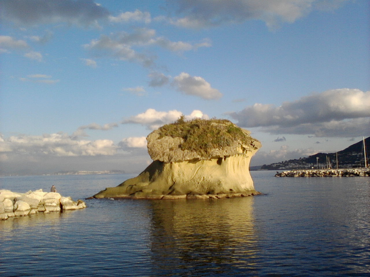 Lacco Ameno: the mushroom